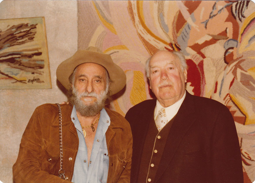 DeGrazia and motion picture Director Lee Garmes inside the Gallery In the Sun. Garmes director a number of DeGrazia's films.